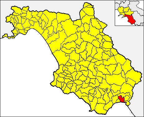 Locator map of the municipality of Vibonati (red) within the Province of Salerno